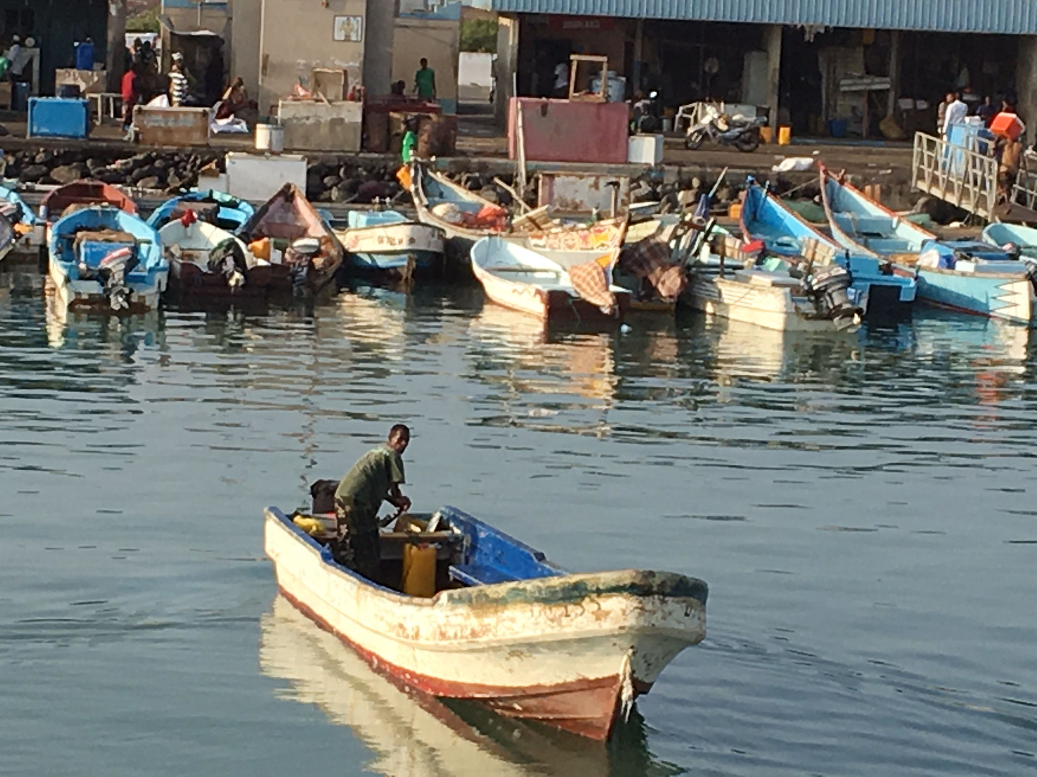 Djiboutian going out to fish on Gulf of Aden This is an image of "African people at work" from Djibouti